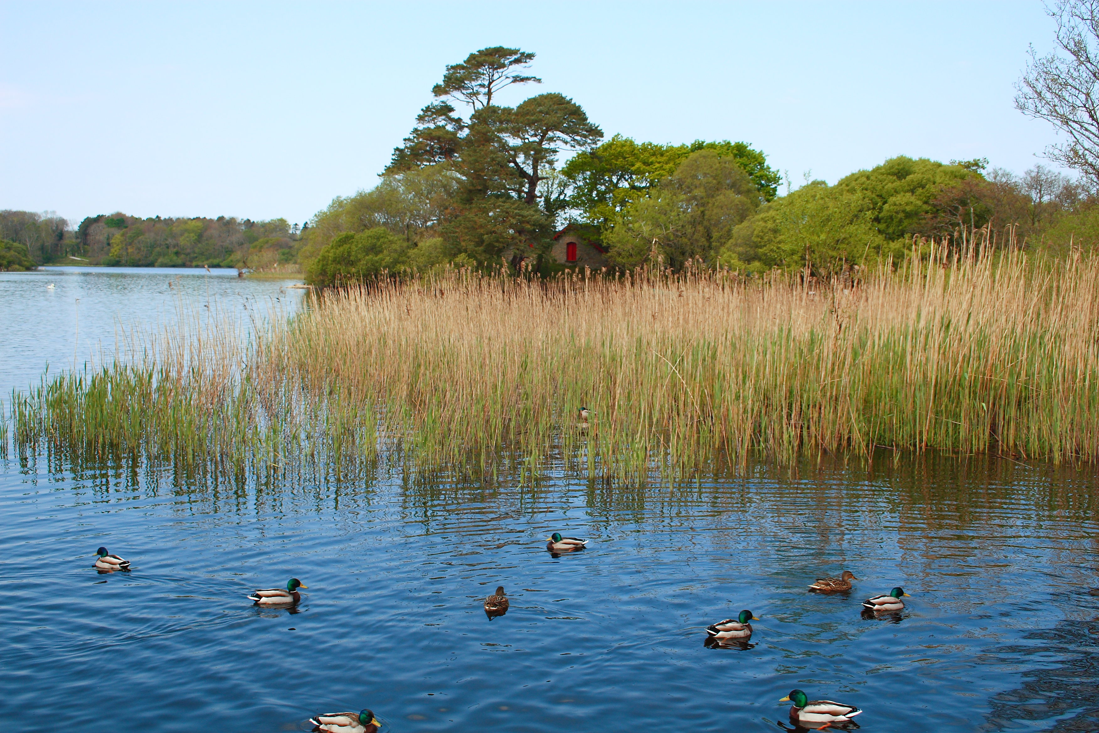 Ducks on Lough Leane near Ross Castle, Killarney, County Kerry